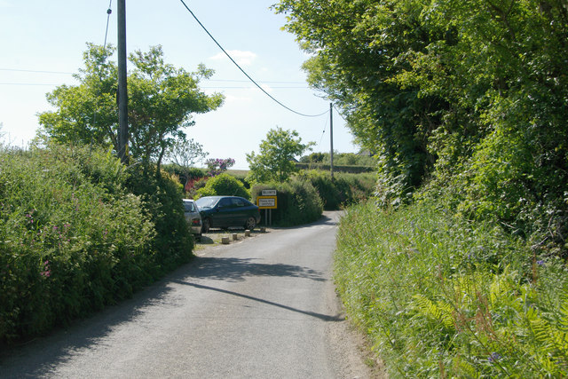 Blunts. The eastern end of Blunts village, Cornwall.